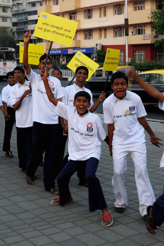 TC activists in Mumbai 2009